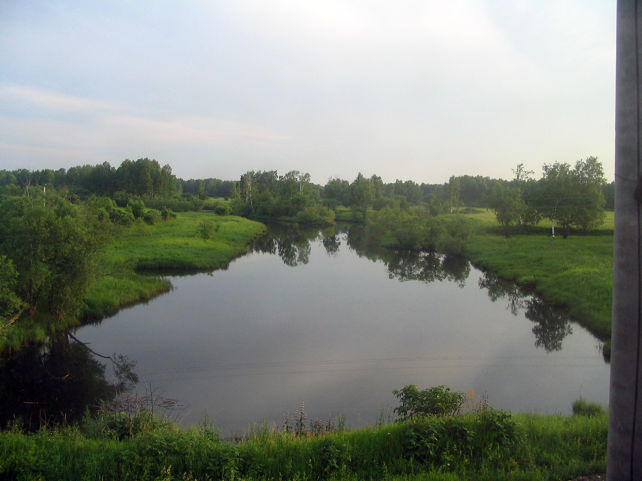 Picture of the landscape west of Irkutsk and east of Yurty in Russia. Taken by me 7/06, released into public domain